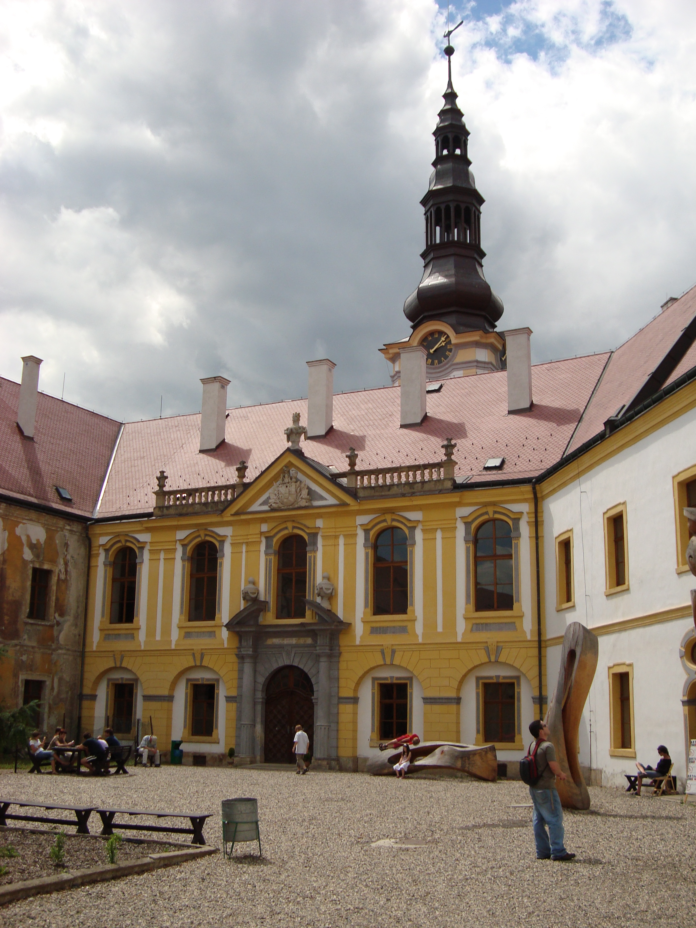 Děčín Castle, Czech Republic.